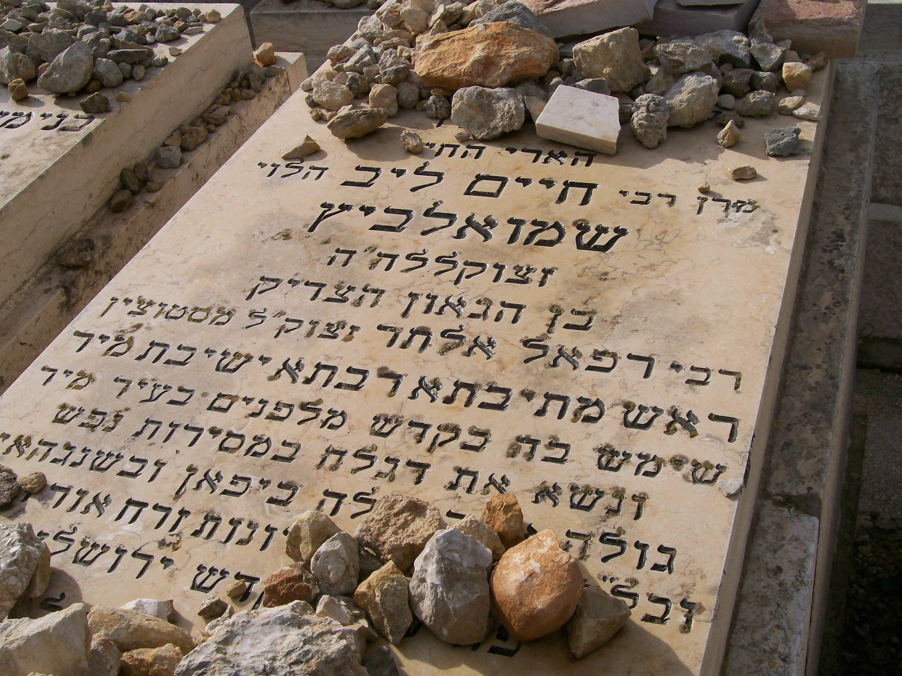 The tombstone of Chaim Leib Shmuelevitz.